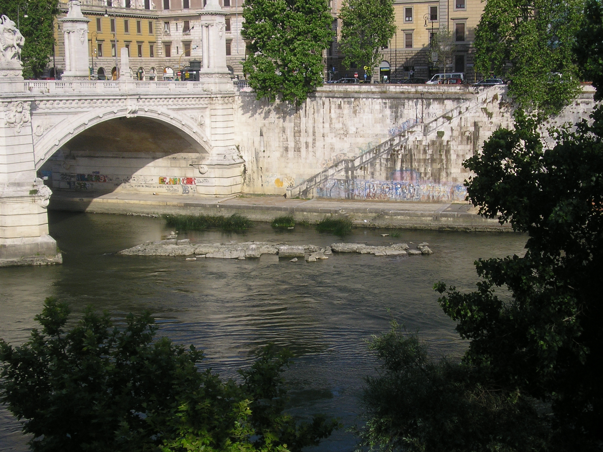 Remains of Neronian Bridge in Rome, Italy.